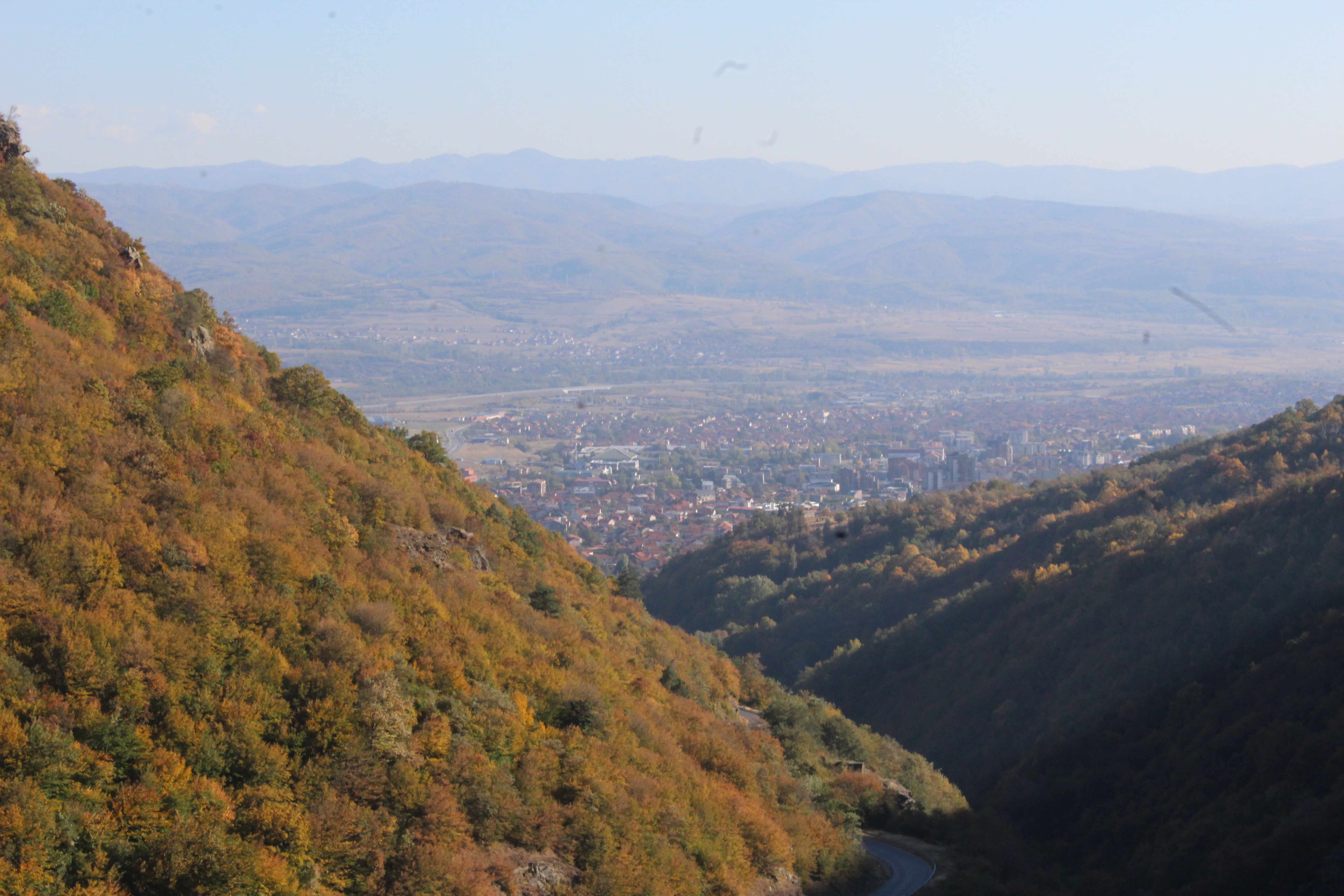 A part of the Vranjska basin. Srpski (latinica): Deo Vranjske kotline vidjen sa lokaliteta Markovo kale.